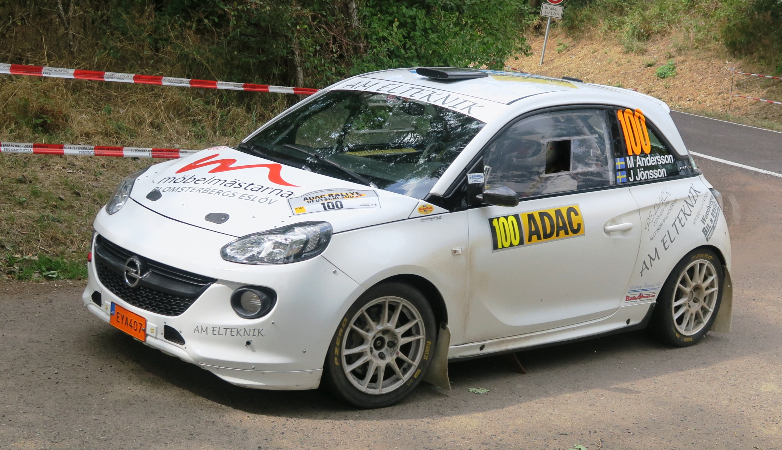 Opel Adam R2 von Mats Andersson und Jörgen Jönsson Deutsche Rallye 2018